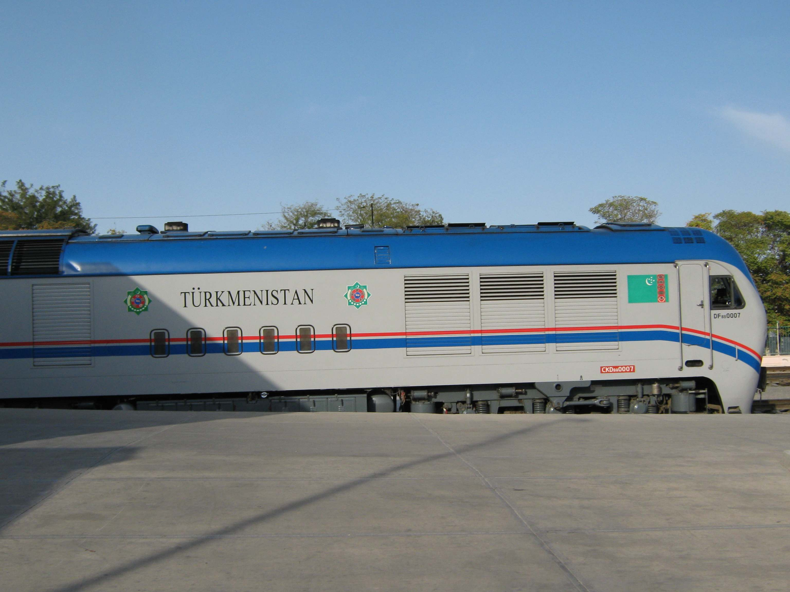 Diesel locomotive in Turkmenistan.